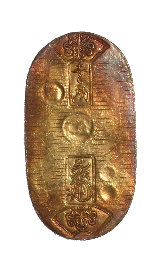 Hoji-koban